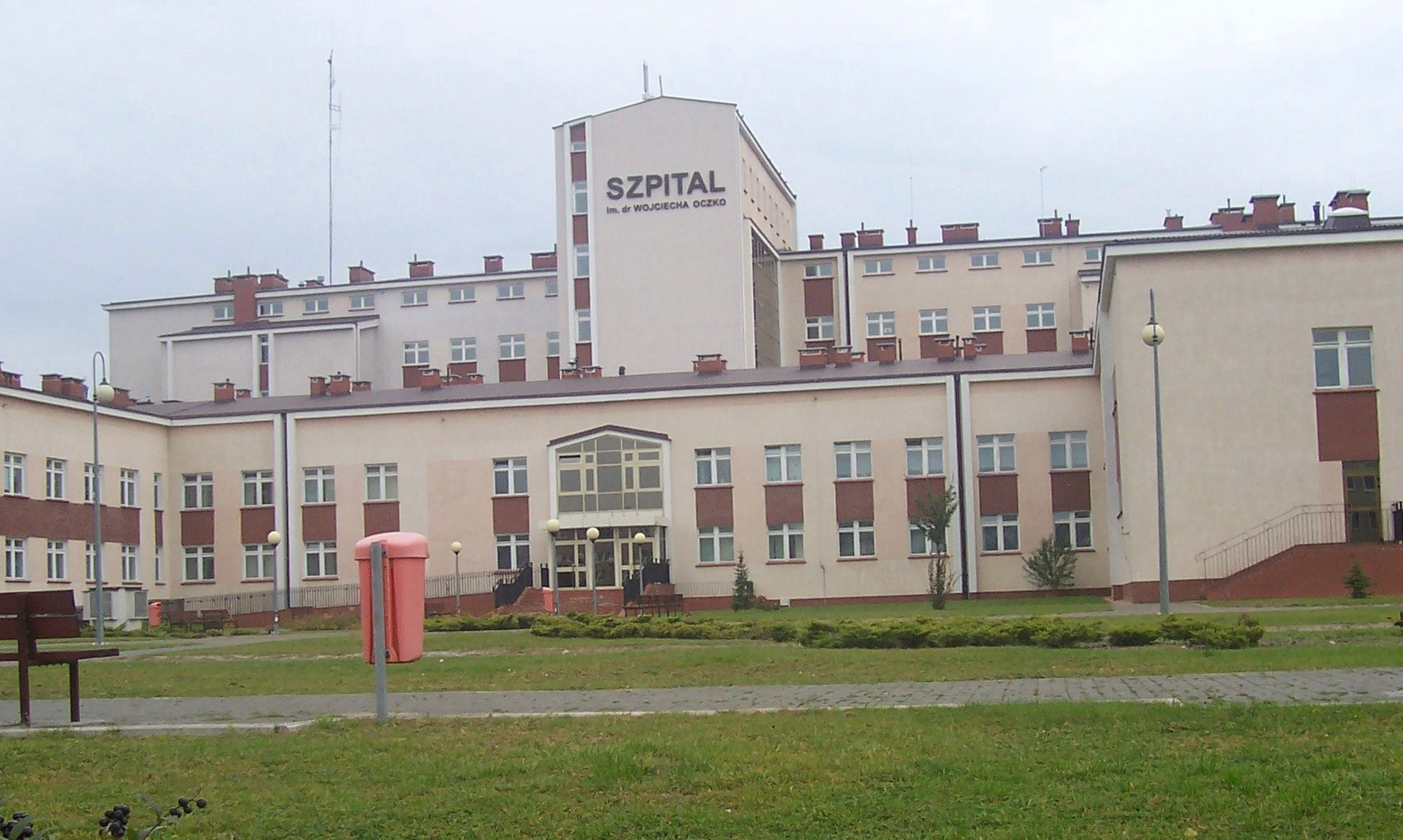 Wojciech Oczko Hospital in Przasnysz.